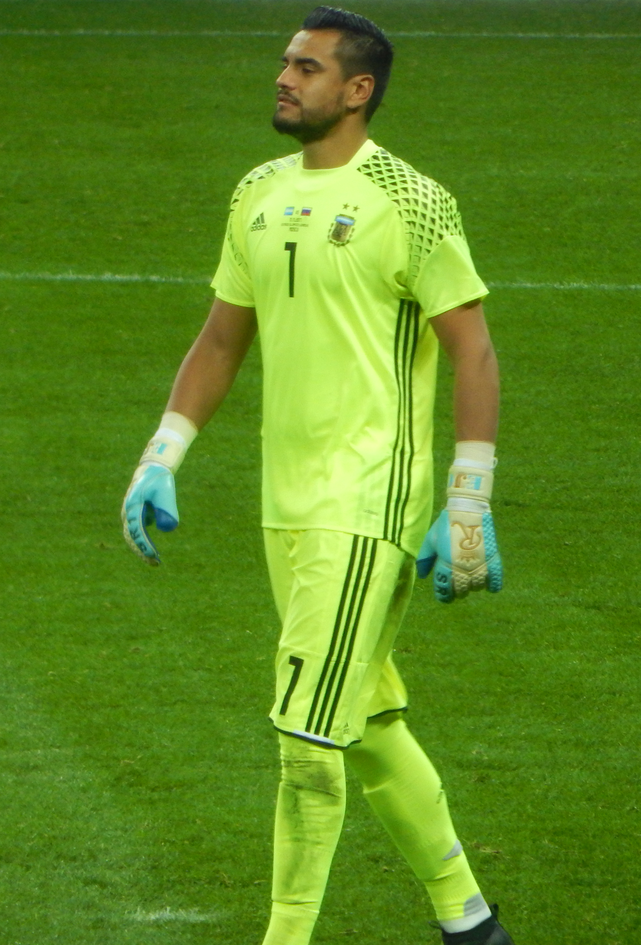 A friendly match between Russia and Argentina in Moscow, Luzhniki stadium, on November 11, 2017.